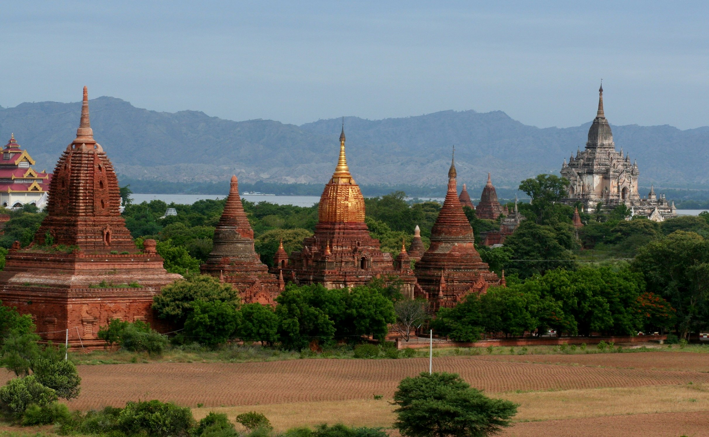 Bagan